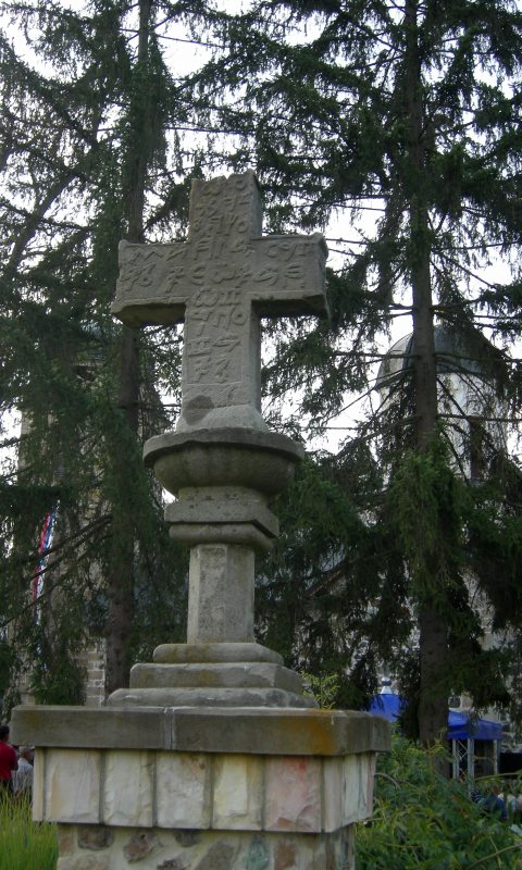 Cross near Monastery Ozren.